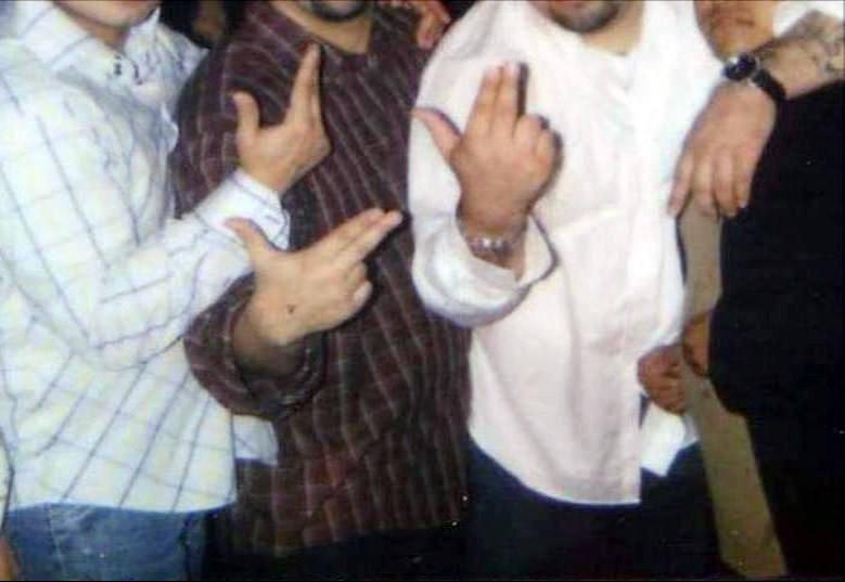 The Hermanos de Pistoleros Latinos hand signals Original caption: "The Hermanos de Pistoleros Latinos (HPL) The Hermanos de Pistoleros Latinos (HPL) is a Hispanic prison gang formed in the Texas Department of Criminal Justice (TDCJ) in the late 1980's. HPL operates in most prisons and on the streets in many communities in Texas, particularly Laredo. HPL is also active in several cities in Mexico, and its largest contingent in that country is located in Nuevo Laredo. HPL is structured and estimated to have 1,000 members. HPL members maintain close ties with Mexican DTOs and are involved in the trafficking of large quantities of cocaine and marijuana from Mexico into the U.S. for distribution."